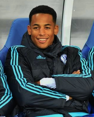 Dennis Aogo